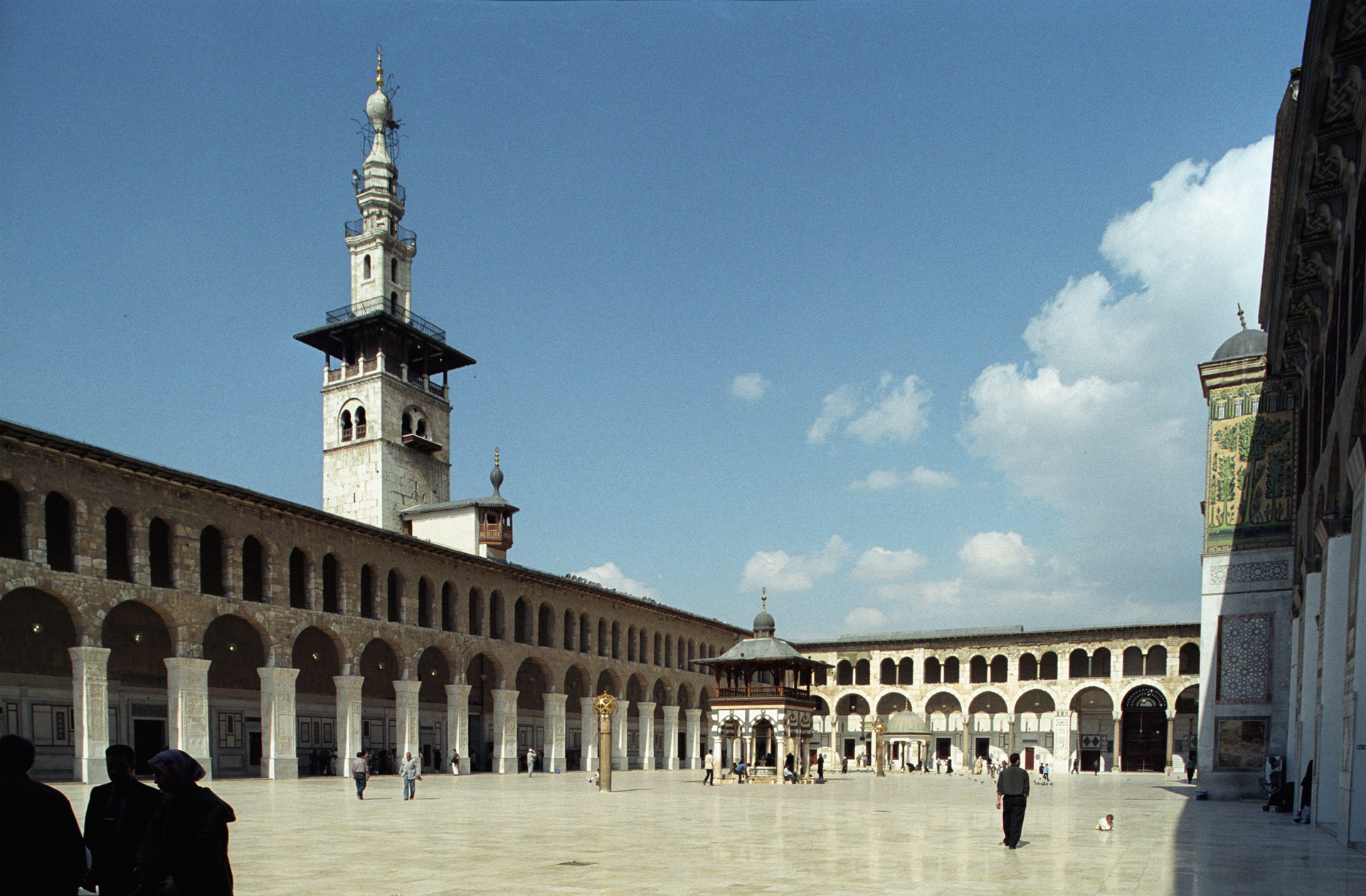 The Umayyad Mosque - Minaret of the Bride, Damascus